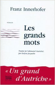 Book cover of Franz Innerhofer "Les grands mots" 2005